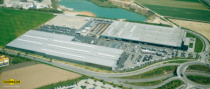 Gersthofen Humbaur